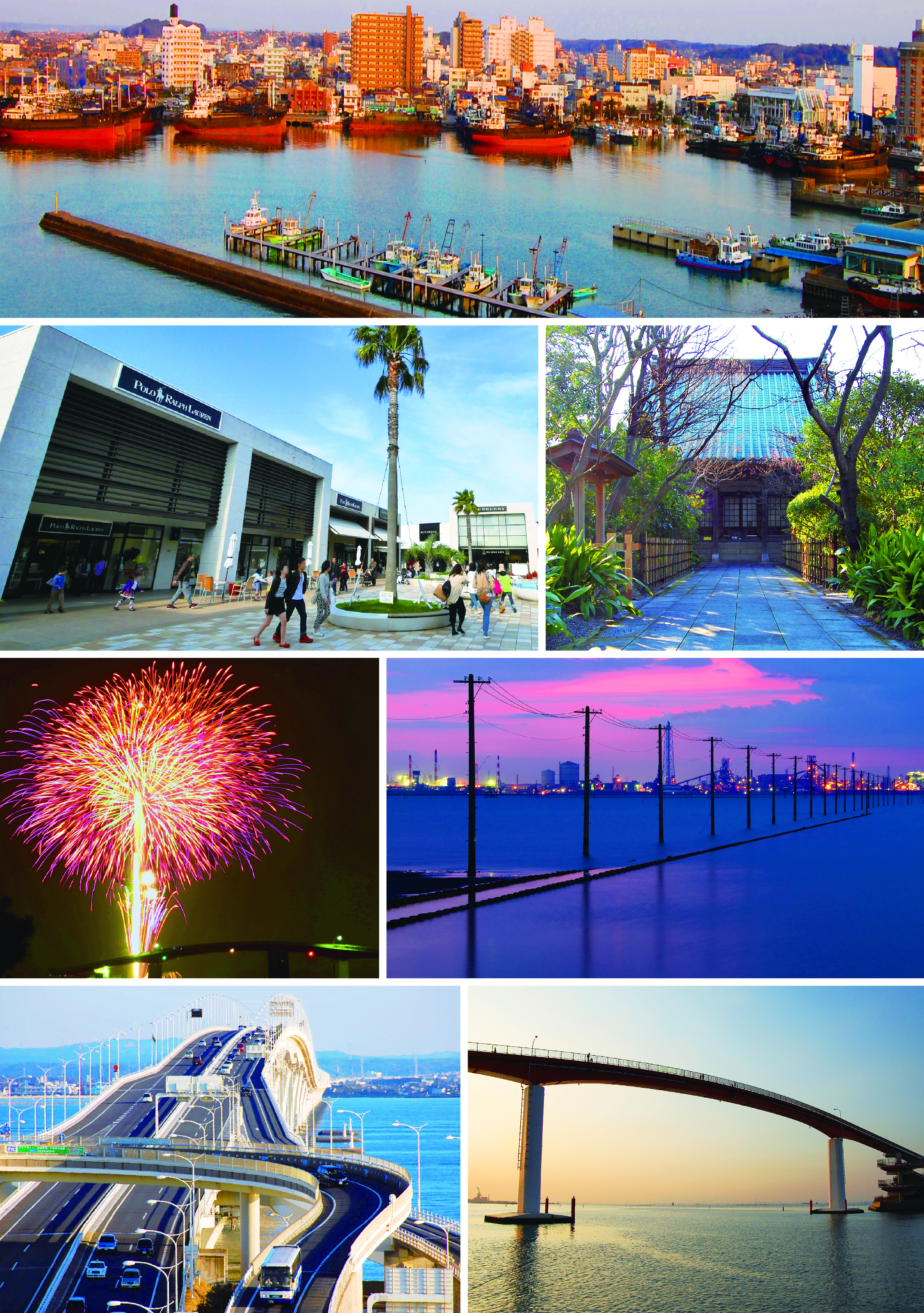 Kisarazu montage.jpg